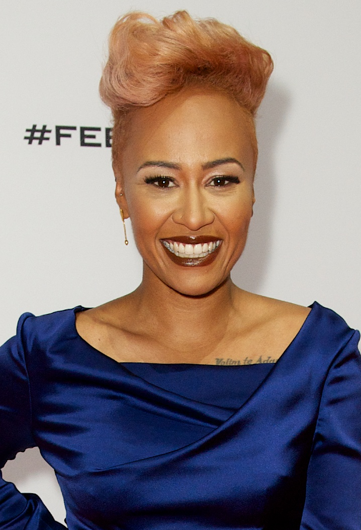 Emeli Sande was a guest of Jaguar at the reveal of the new XE in London, Monday 8th September 2014.